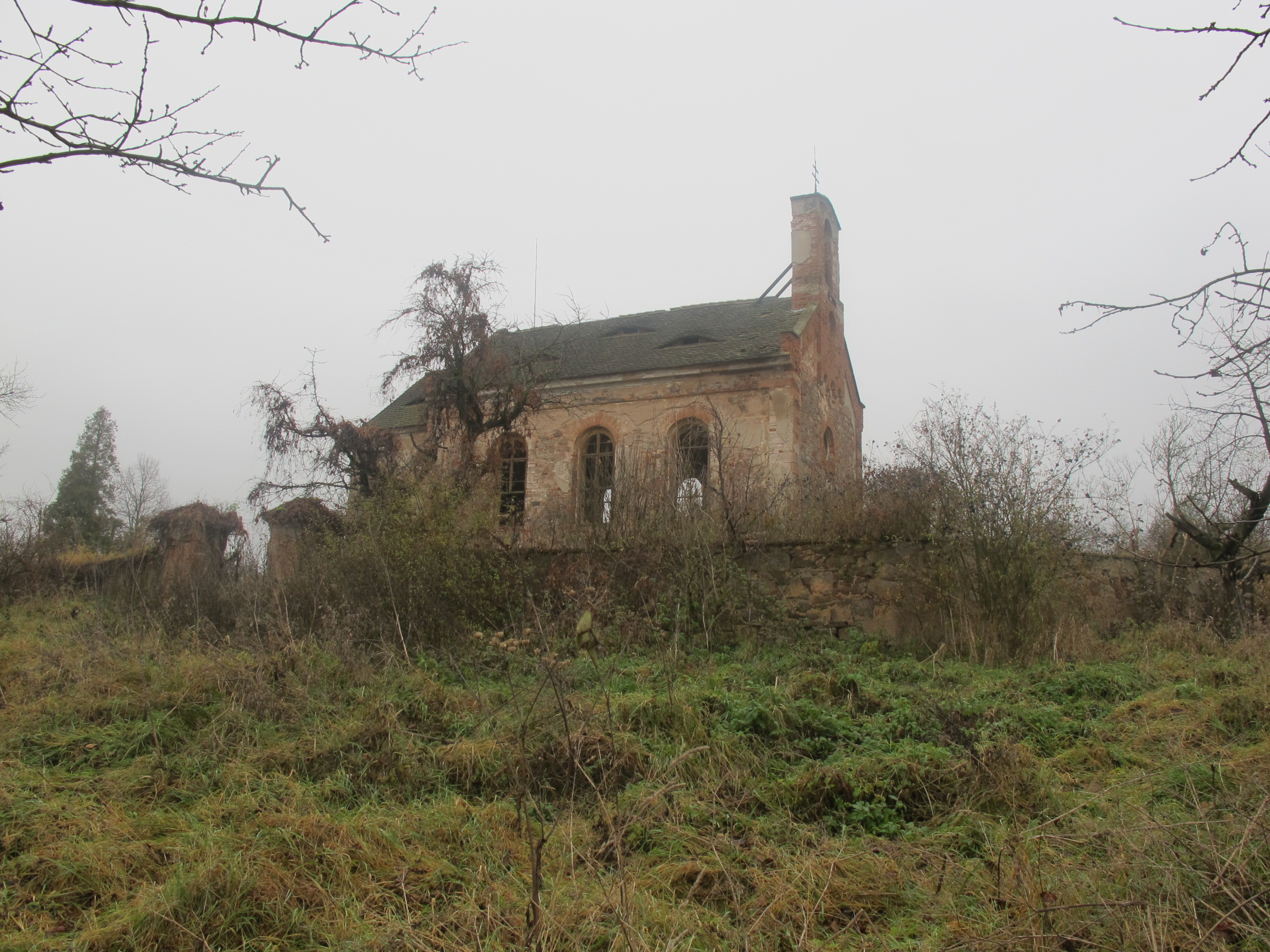 Church of Assumption from 19th century in Přibenice